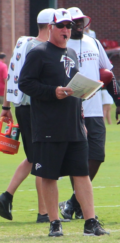 Falcons coach Mike Smith, 2013